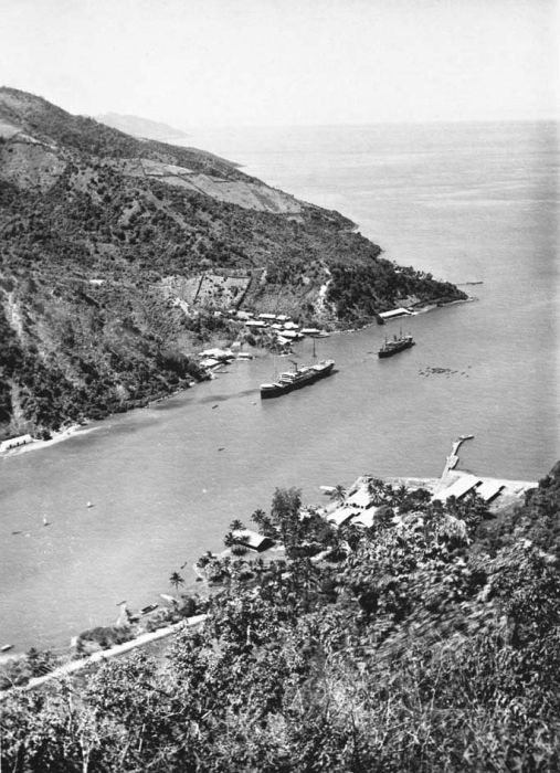 View over Gorontalo Bay